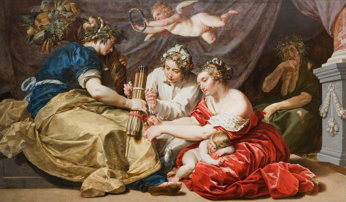 Janssens, Abraham; Peace and Plenty; Wolverhampton Arts and Heritage